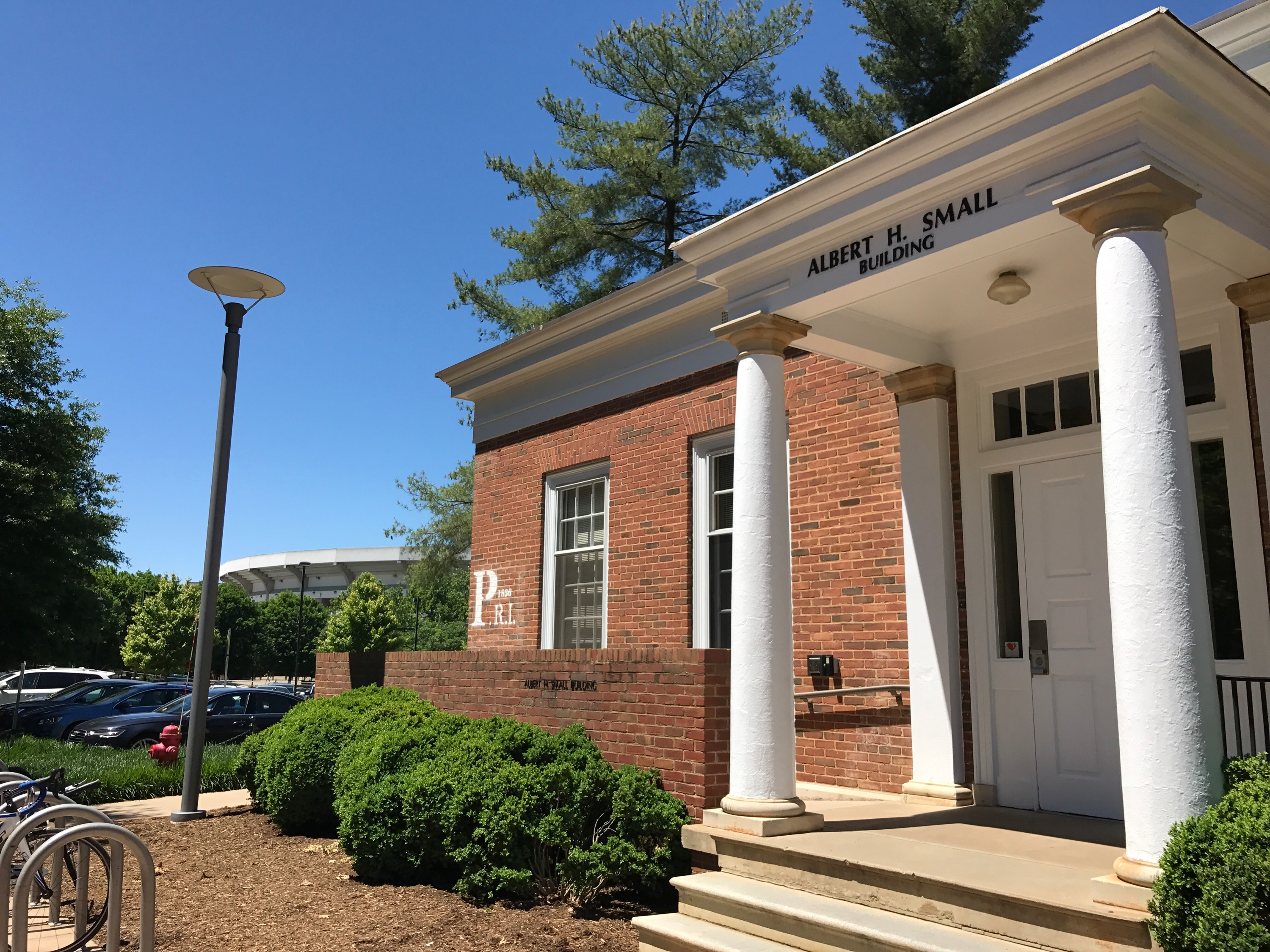 Markings of The Society of P.R.I. along Engineer's Way in 2017